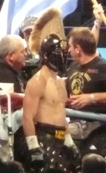 Michael Katsidis (centre) at Upton Park stadium, prior to his fight with Kevin Mitchell. He is shown wearing his traditional Corinthian helmet and warrior-style trunks as part of his Greek heritage.